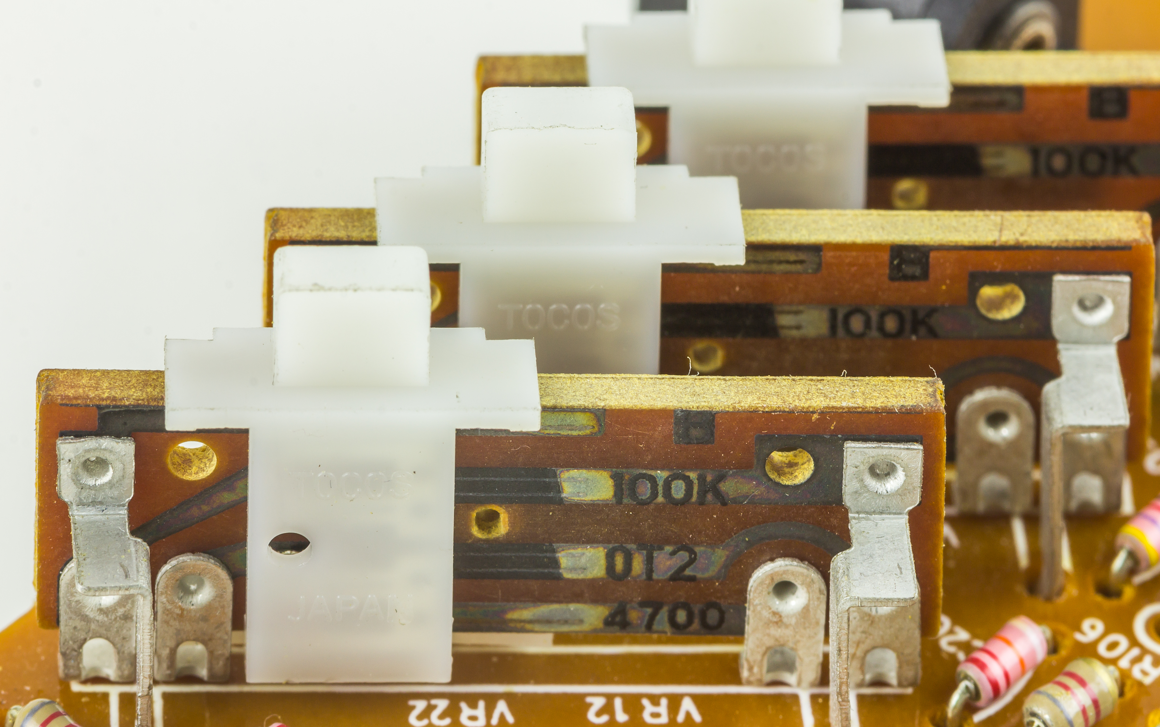 Siemens RC 826 - Three Fader potentiometer for the equalizer function